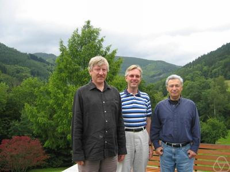 From left: Jörg Schmeling, Boris Hasselblatt, Yakov Pesin, Oberwolfach 2007